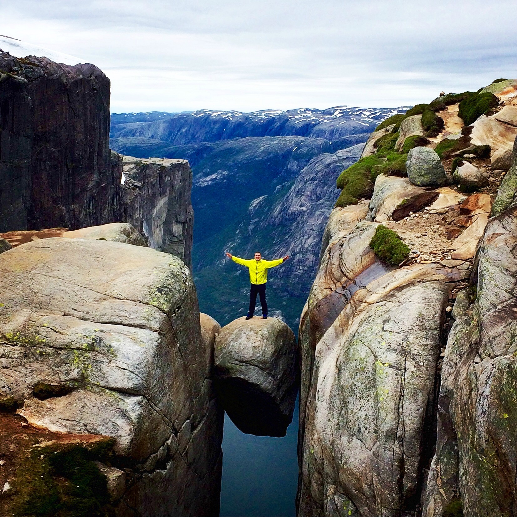 A man standing on Kjeragbolten